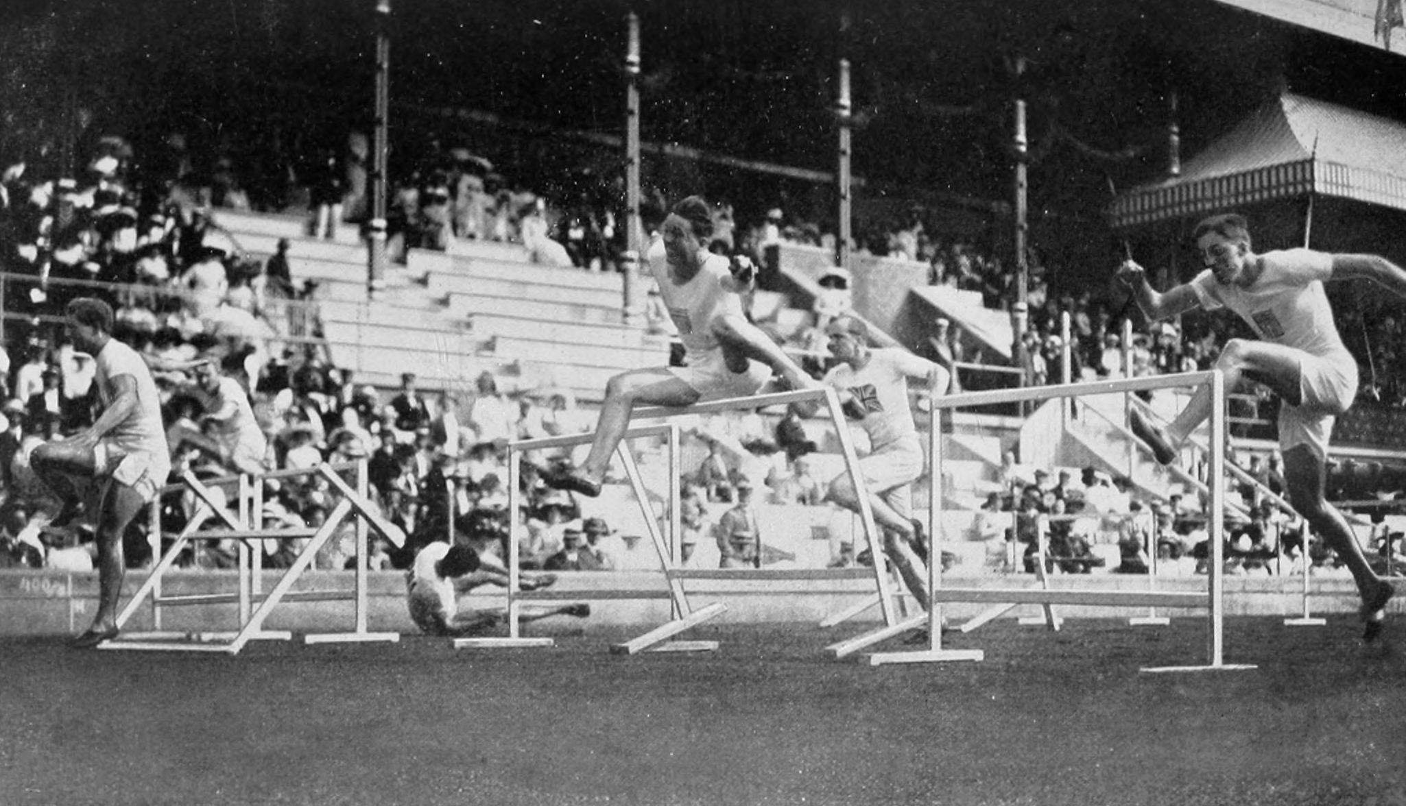 The final of the men's 110 metre hurdles at the 1912 Summer Olympics. John Nicholson fell and did not finish the race. Fred Kelly (USA), James Wendell (USA), Martin Hawkins (USA), John Case (USA), Kenneth Powell (GBR), John Nicholson (USA)